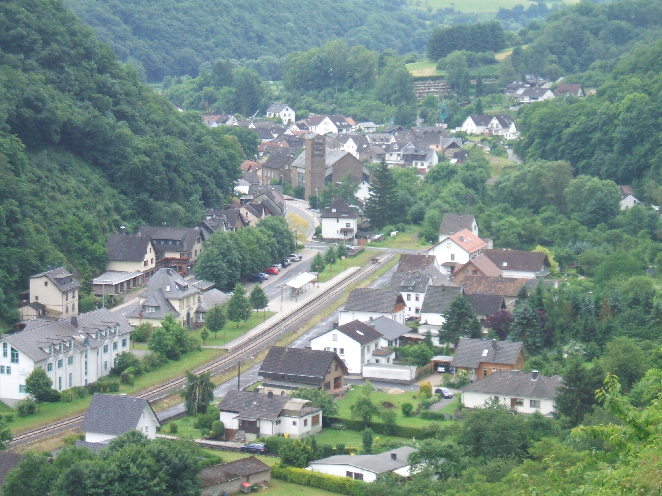 Village Ahrbrueck-Brueck village impressions